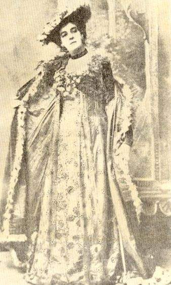 Photograph of the Cuban actress Luisa Martínez Casado Muñoz (1825–1860) in La Dama de las Camelias